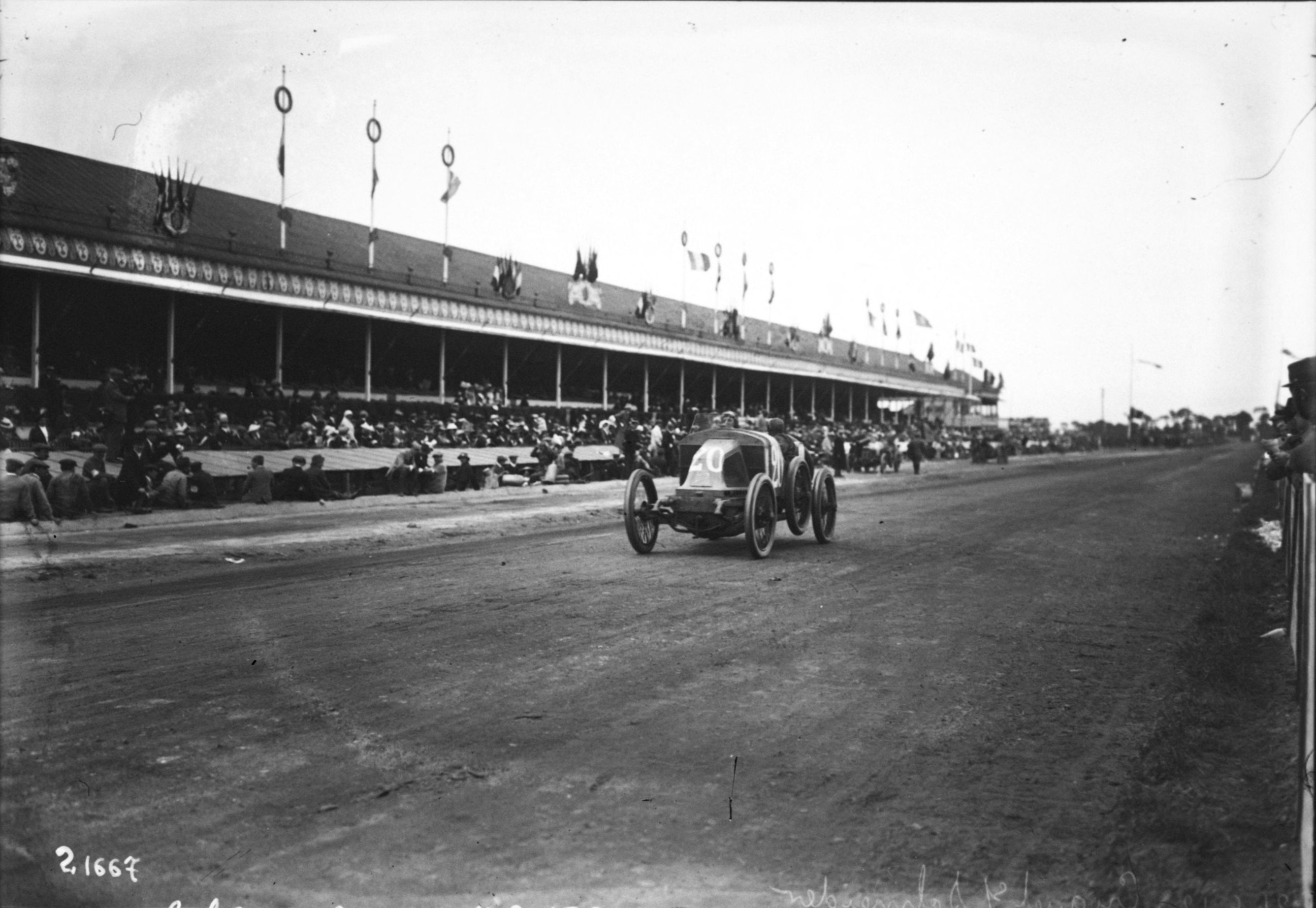 René Croquet in his Schneider at the 1912 French Grand Prix at Dieppe.